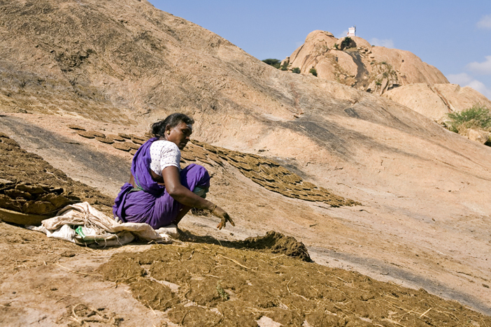 A woman putting up cow dung up to dry in the sun in the village of Tiruparankundram, 20 km away from Madurai, India.